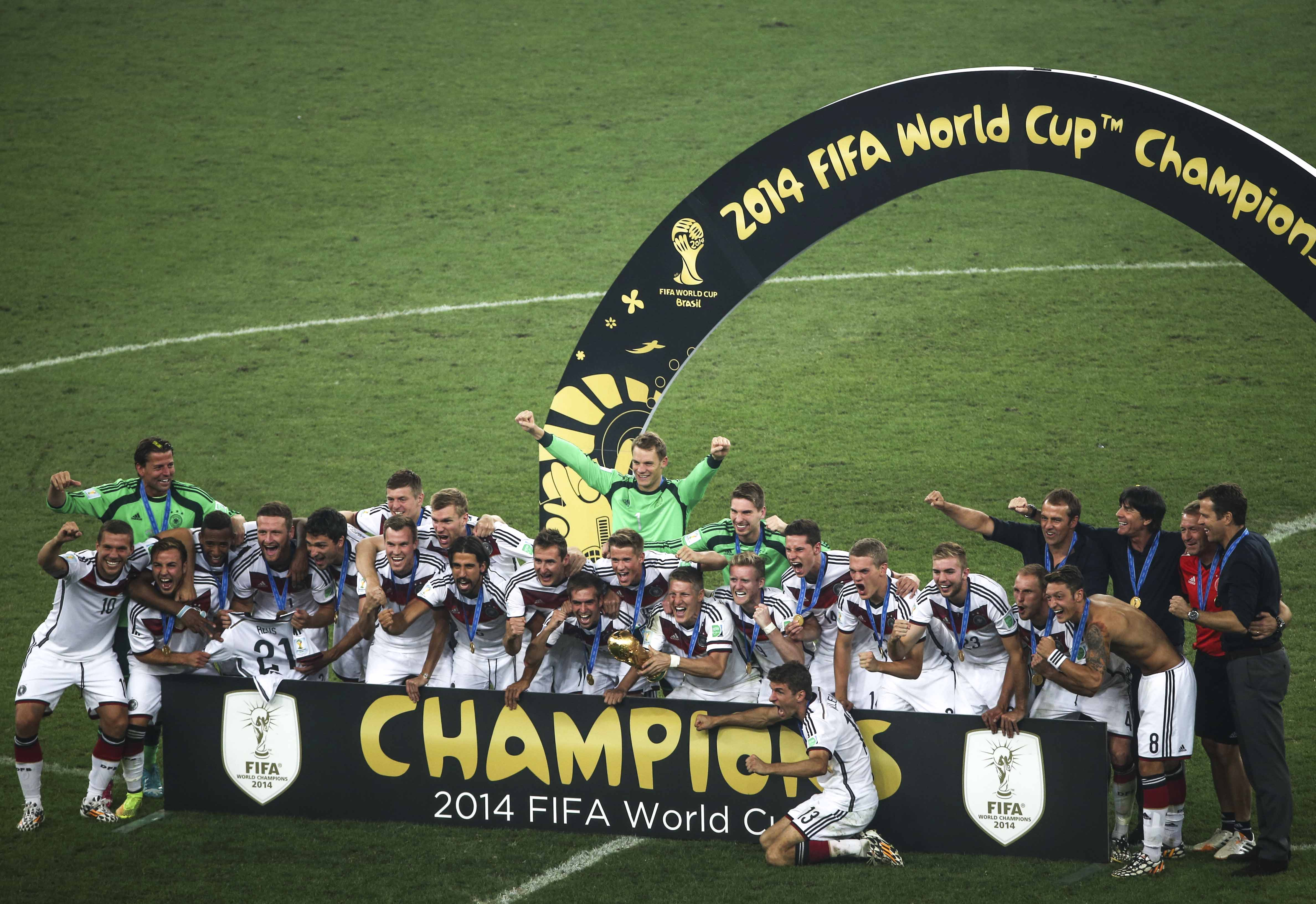 Germany wins it's 4th FIFA World Cup, after beating Argentina 1-0.